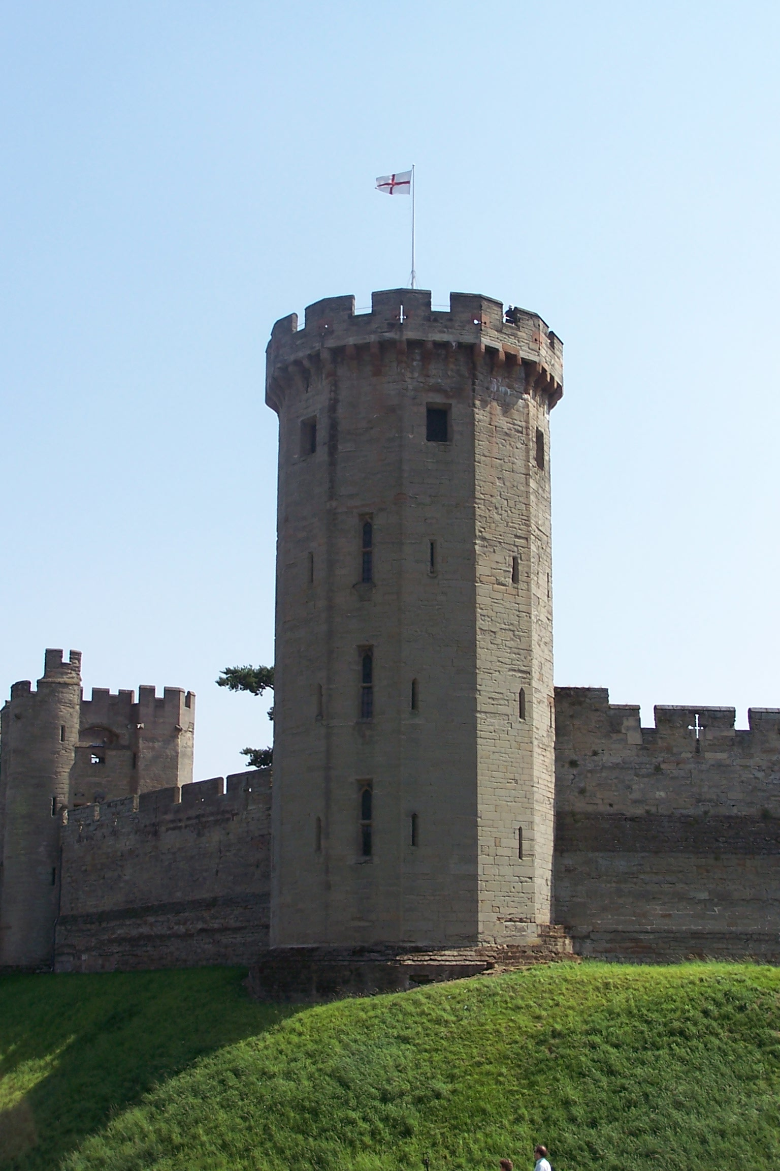 Warwick Castle, Guy's Tower